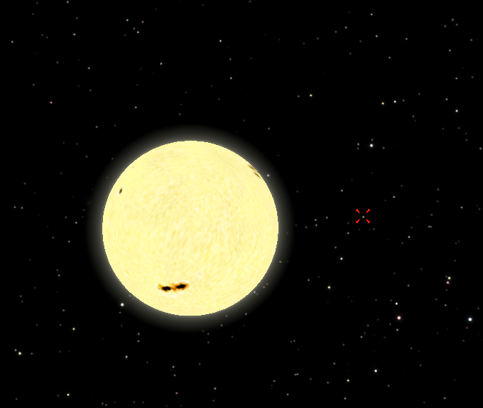 Artistic representation of 47 Ursae Majoris, with the Sun on the background.